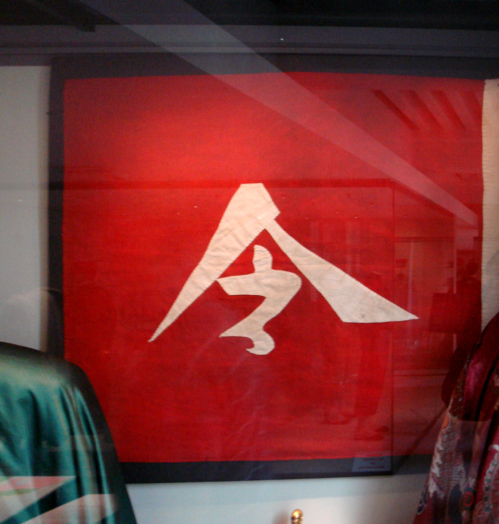 Flag of the "Black Flag Army". Musee de l'Armee, Paris.